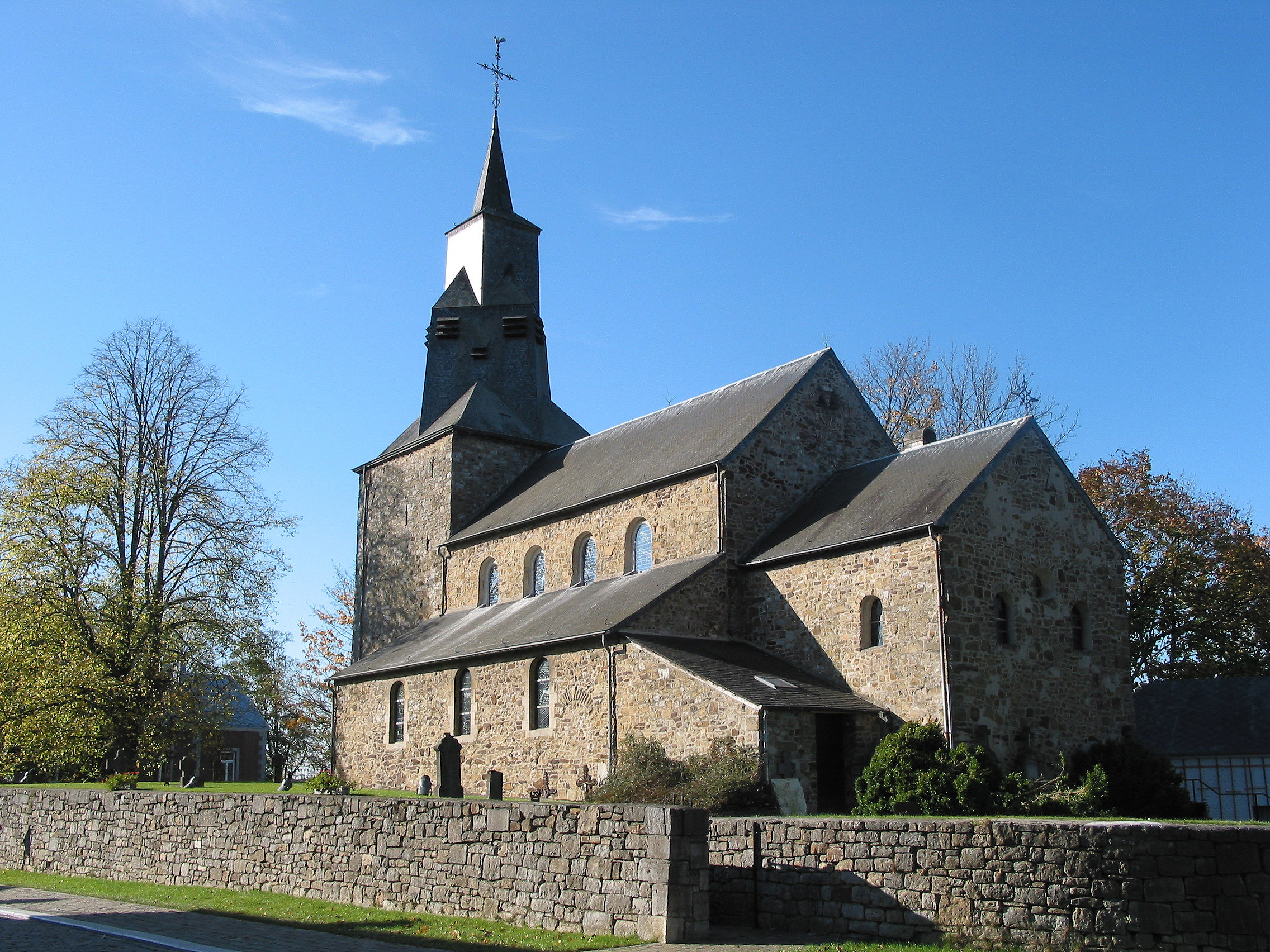 Waha (Belgium), St. Stephen's church (1050).